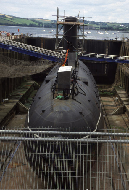 HMS Courageous.Decommissioned SS(N) - Submersible Ship (Nuclear). Sister ship of HMS Conqueror, the vessel that sunk the Belgrano. This is a hunter killer (hunter and killer largely of fellow submarines) rather than a ballistic missile boat. This vessel is opened to the public on occasions but only forward of the machinery spaces.